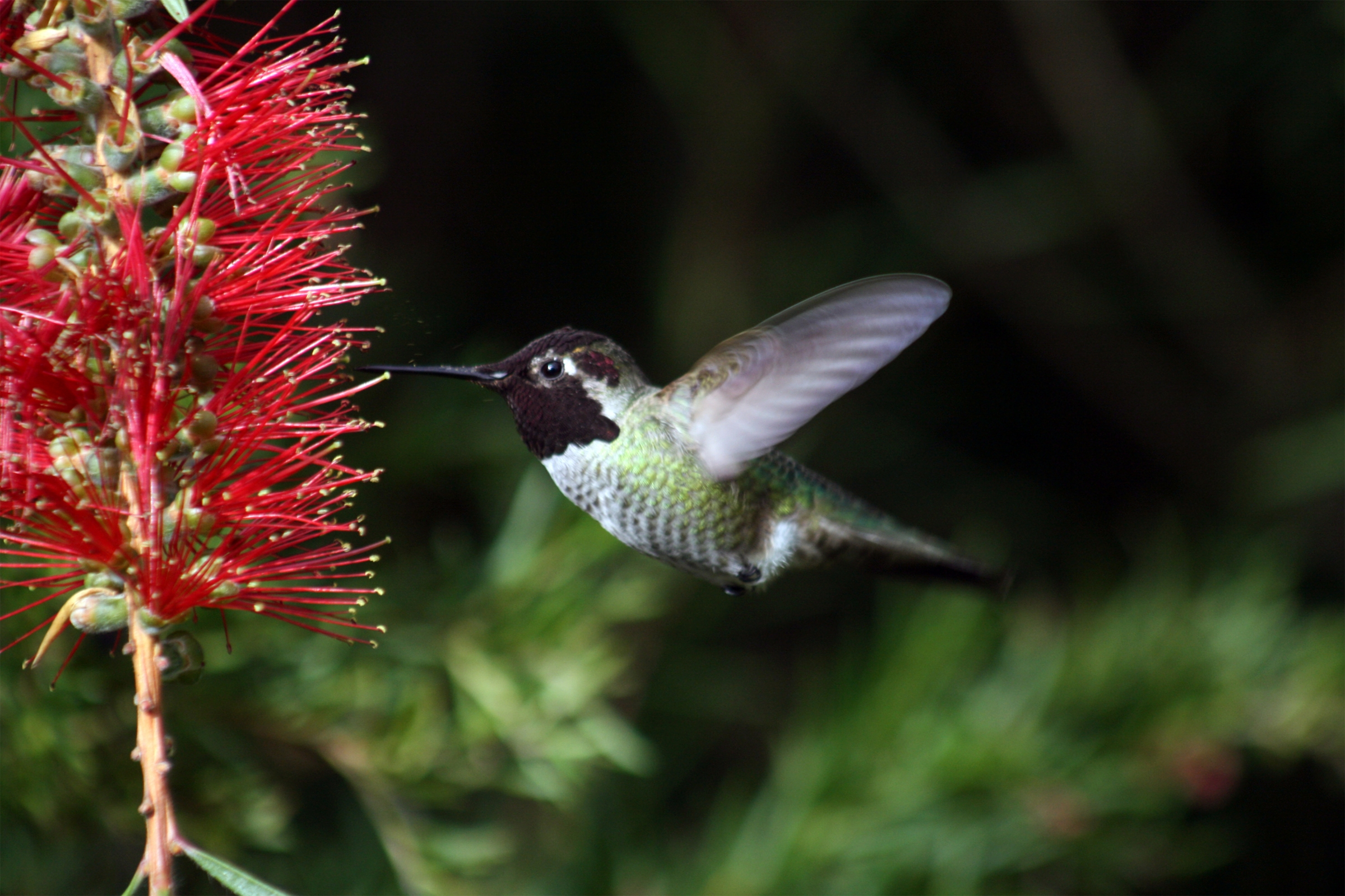 Anna's Hummingbird,Calypte anna